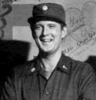 Actor David Ogden Stiers, cropped from a publicity photo for the TV series MASH.